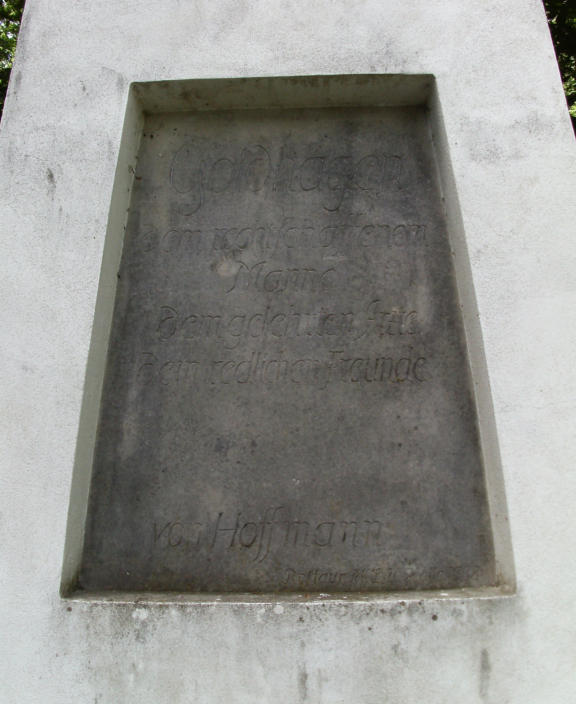 Inscription at Goldhagen's obelisk in the gardens of Dieskau Castle (Kabelsketal, district of Saalekreis, Saxony-Anhalt)